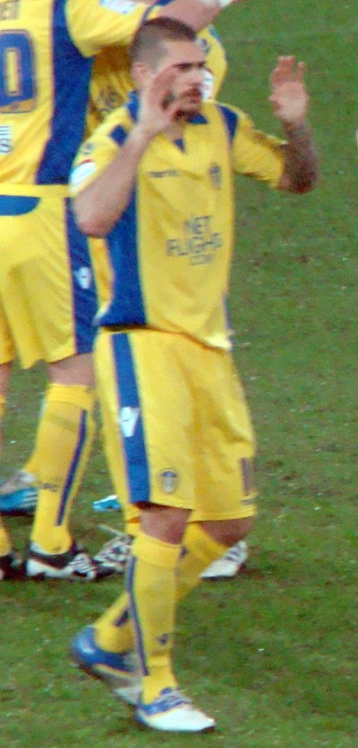 04/01/11 Cardiff V Leeds, Championship, Cardiff City Stadium, Cardiff, Wales